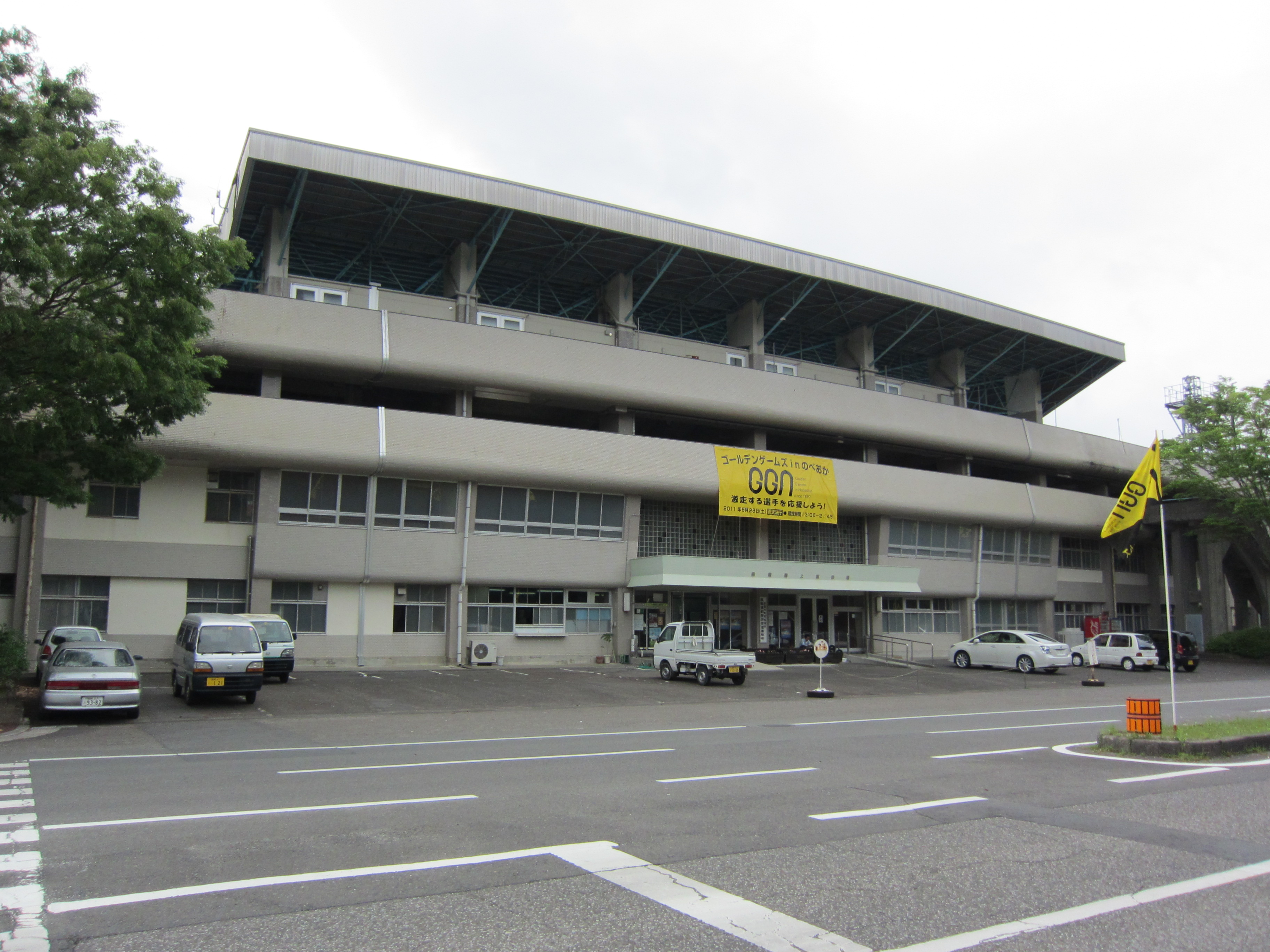 nishishina_Stadium